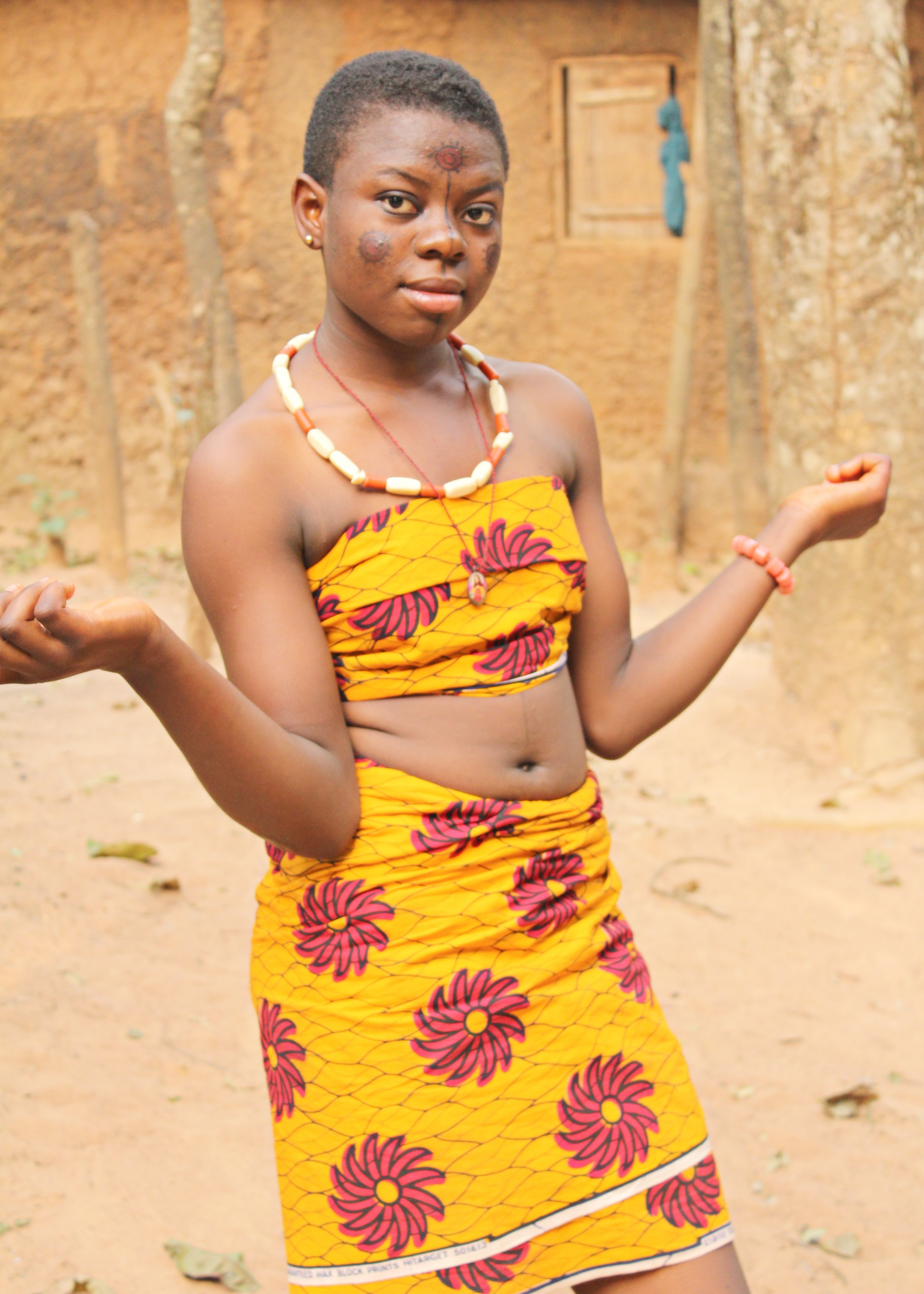 Atilogu Dancer of the Igbo Tribe in Oji River of Enugu State - Nigeria This is an image from Nigeria